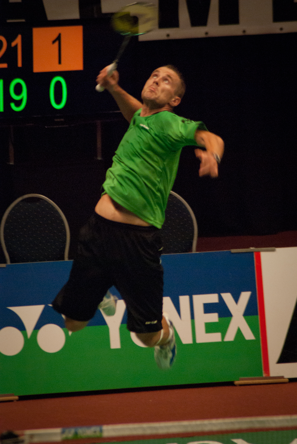 Another sport photo. I like how this one does capture a bit of the explosive sport badminton is. There is more a sense of movement and activity as apposed to my previous rally photo. Too bad his left arm is not completely in focus, but I do like that you can see the movement of his racket and right arm.